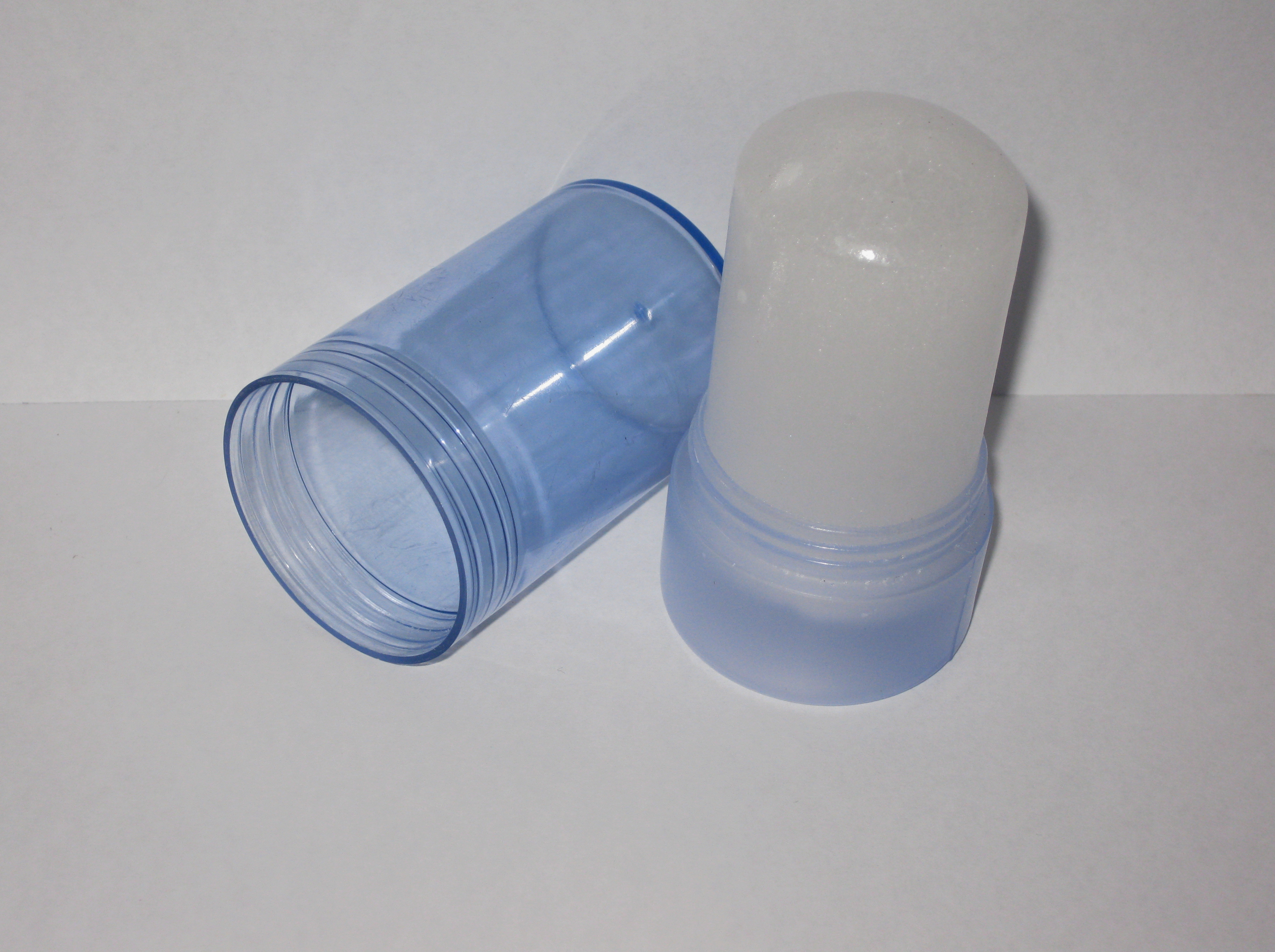 Desodorante de alumbre